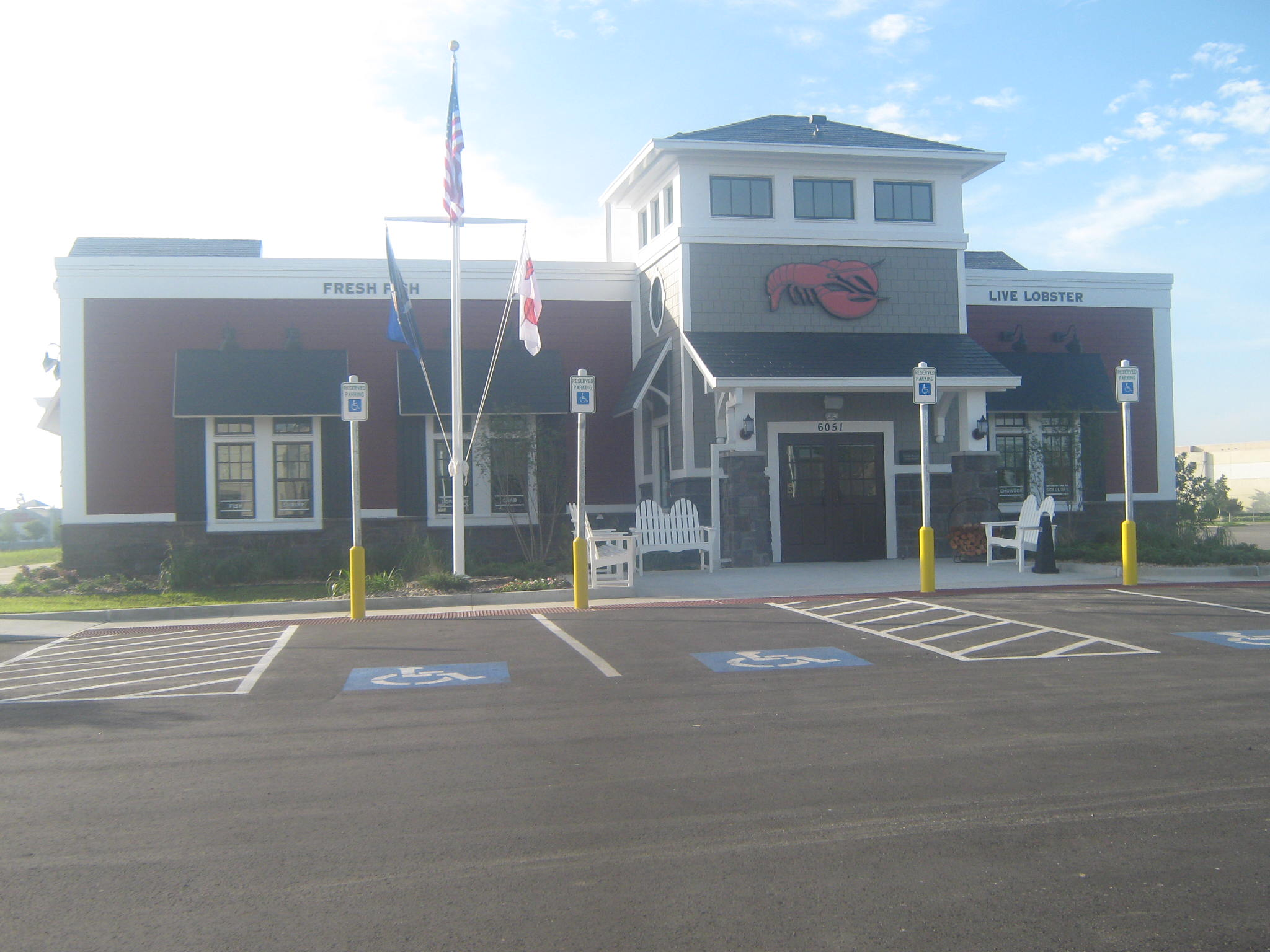 Photo of Red Lobster restaurant in Baton Rouge, LA that demonstrates the new restaurant style of the chain.